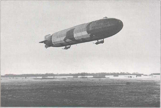 Naval airship L 11 in "Frisian" camouflage